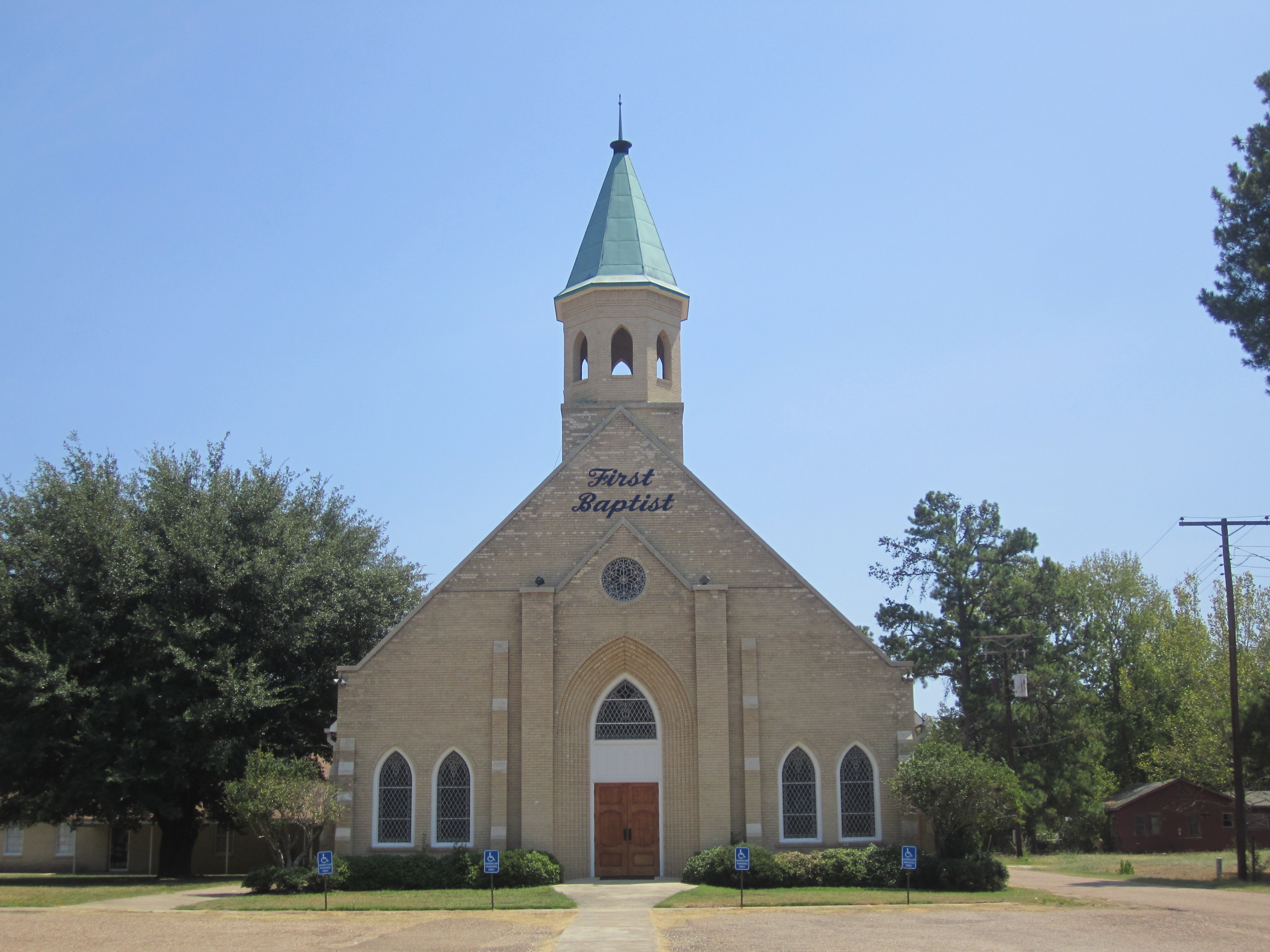 I took revised photo with Canon camera of First Baptist Church in Cotton Valley, LA.